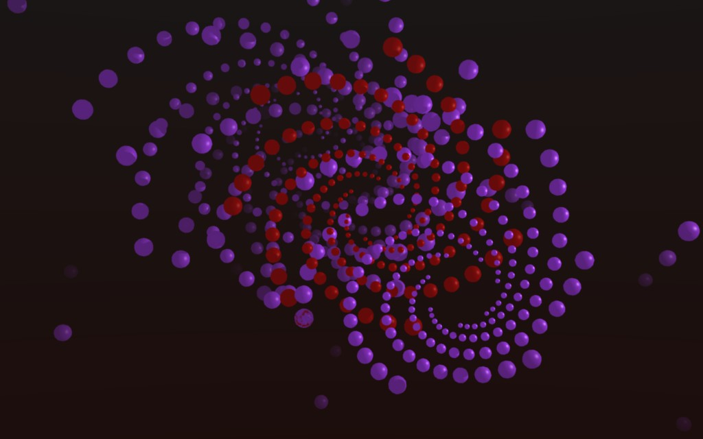 Fibonacci spirals